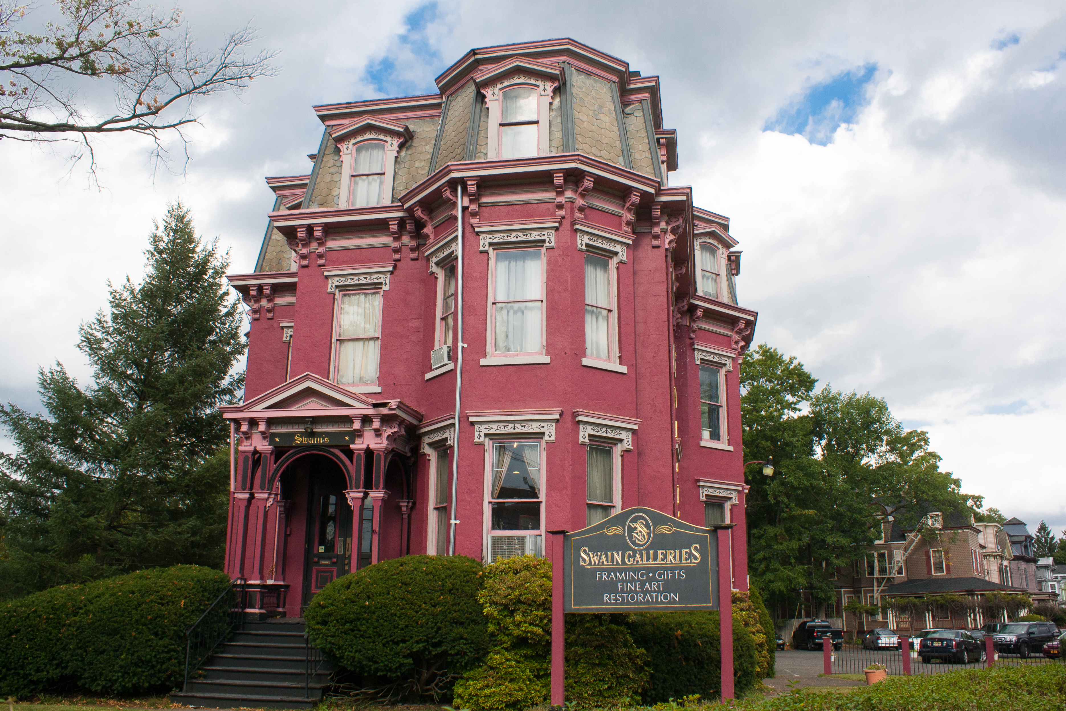 Crescent Area Historic District, Roughly bounded by Park, Prospect, and Carnegie Aves., 7th and Richmond Sts. Plainfield